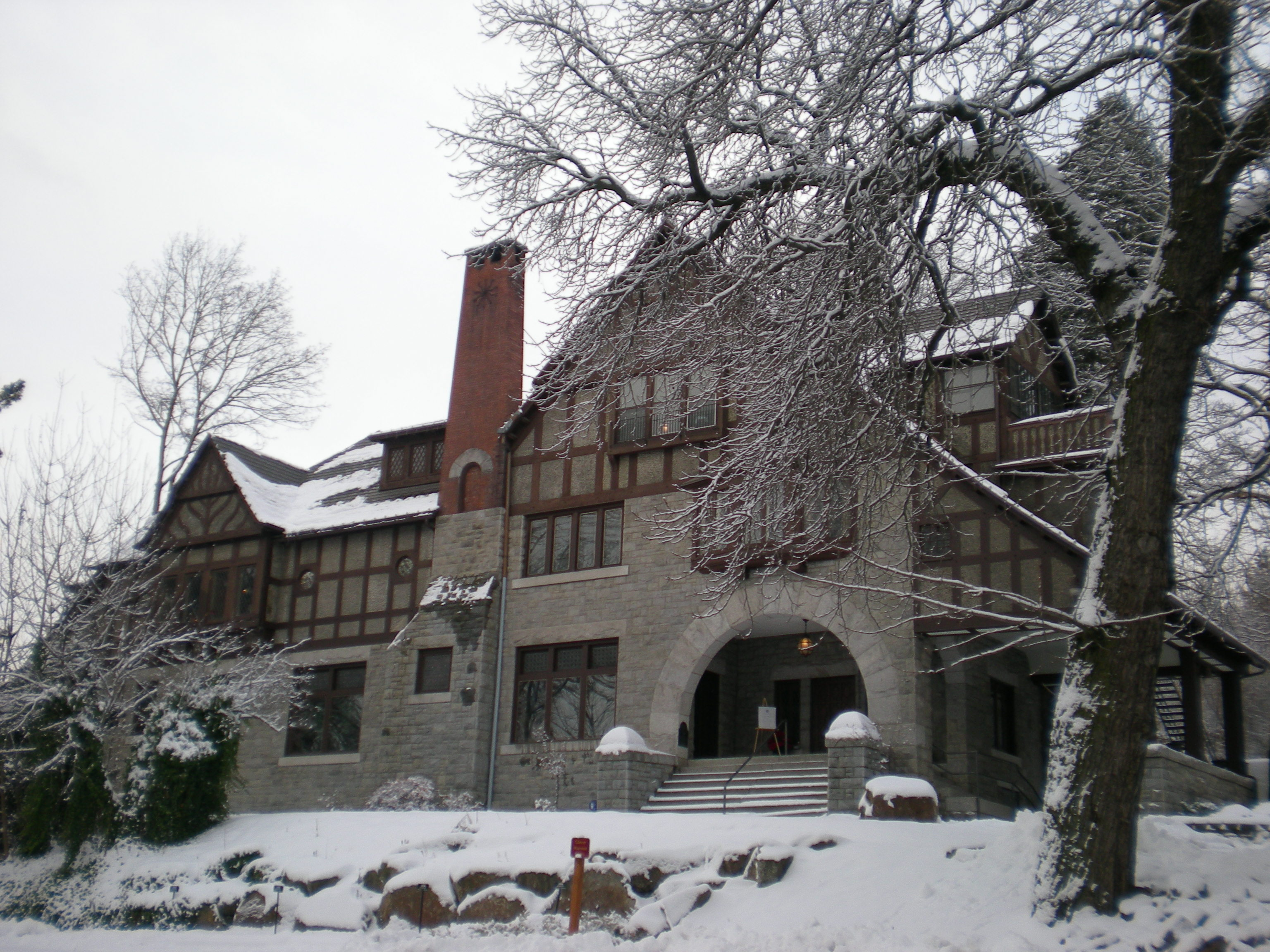 The Glover House, in Spokane, Washington